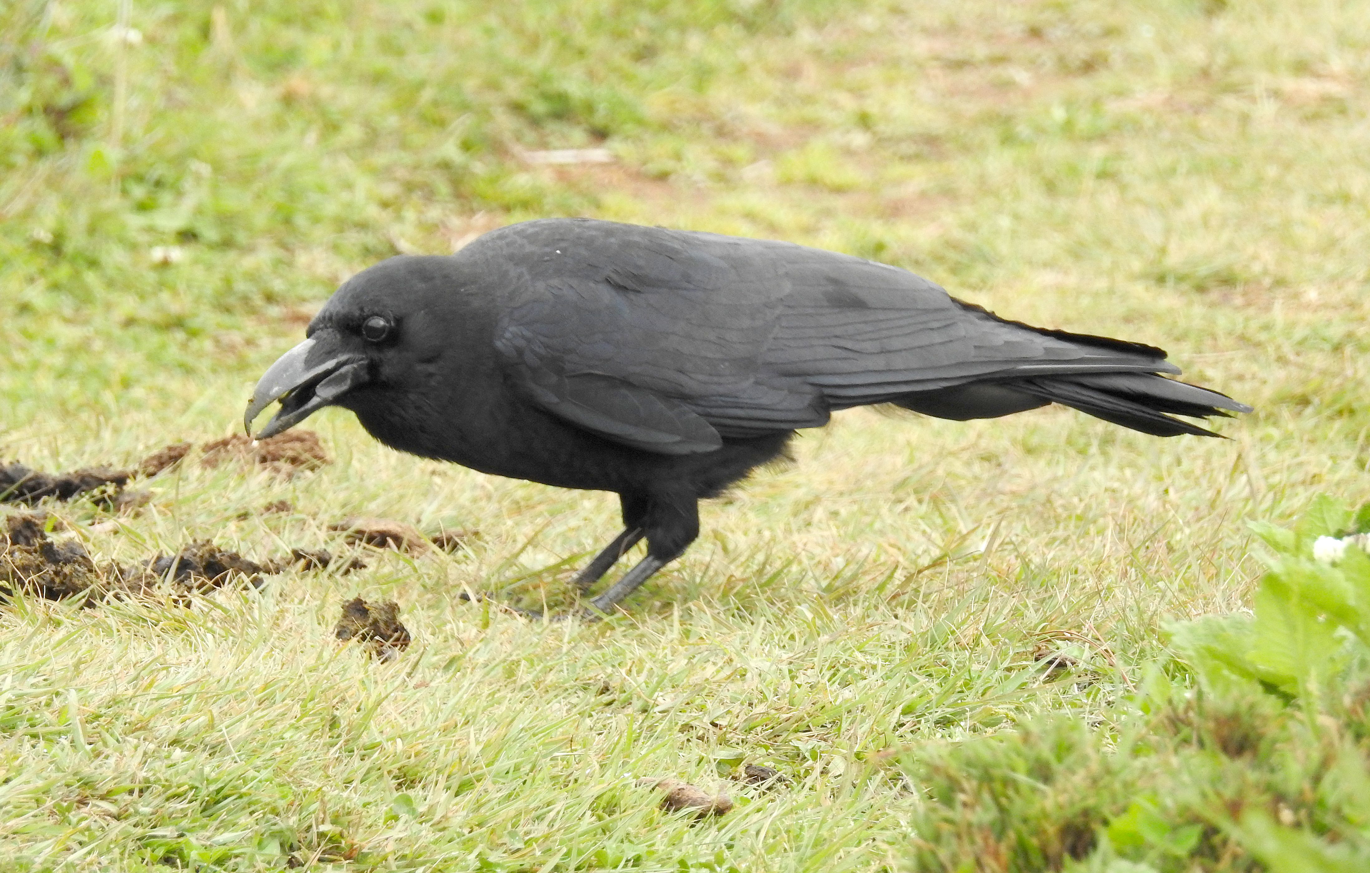 Large-billed Crow Corvus macrorhynchos japonensis by Dr. Raju Kasambe. Photo taken in Phobjikha or Gangteng Valley, Bhutan.